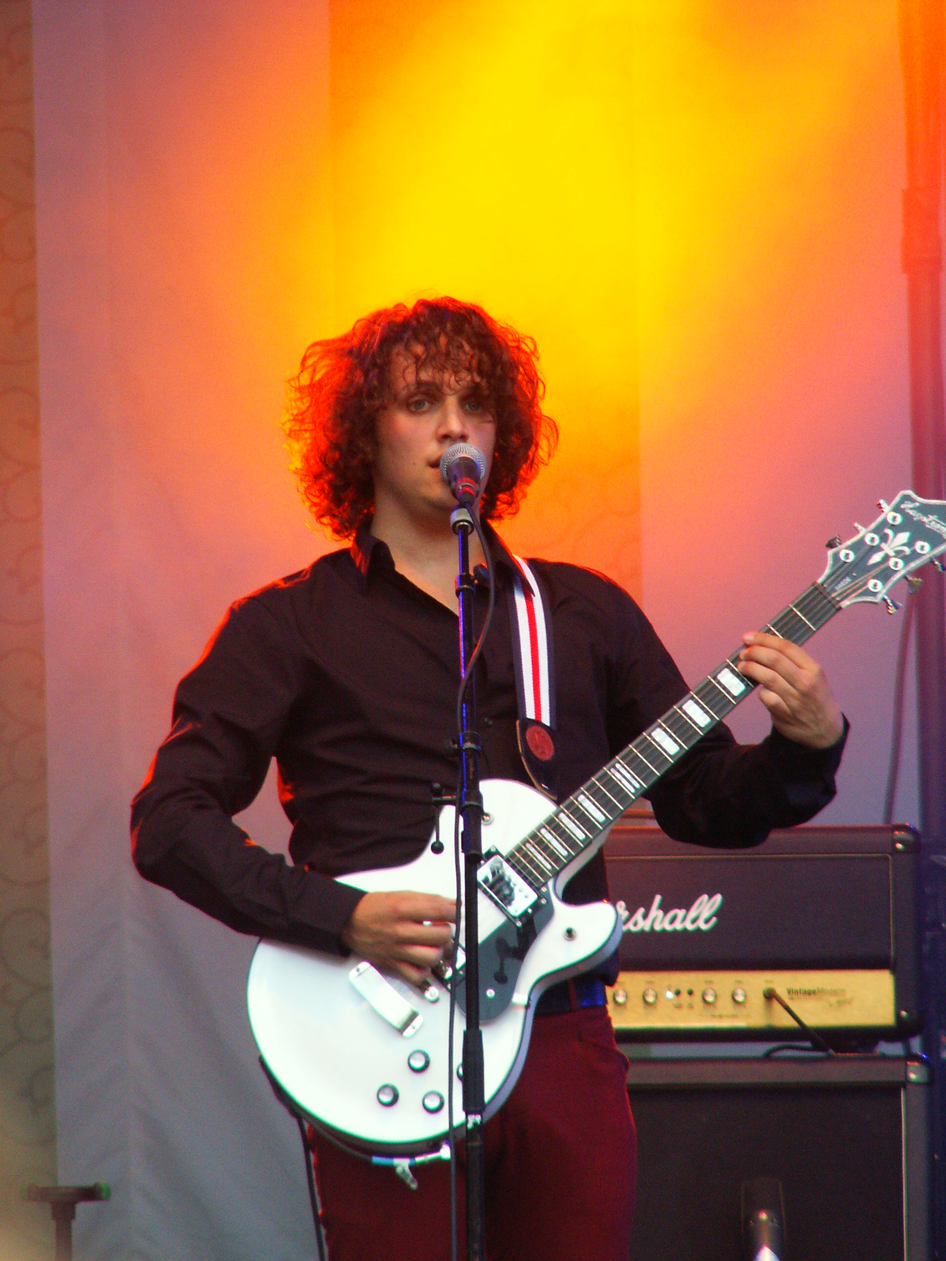 The Swedish artist Salem Al Fakir during Storsjöyran 2007. Playing on a hagström Swede.